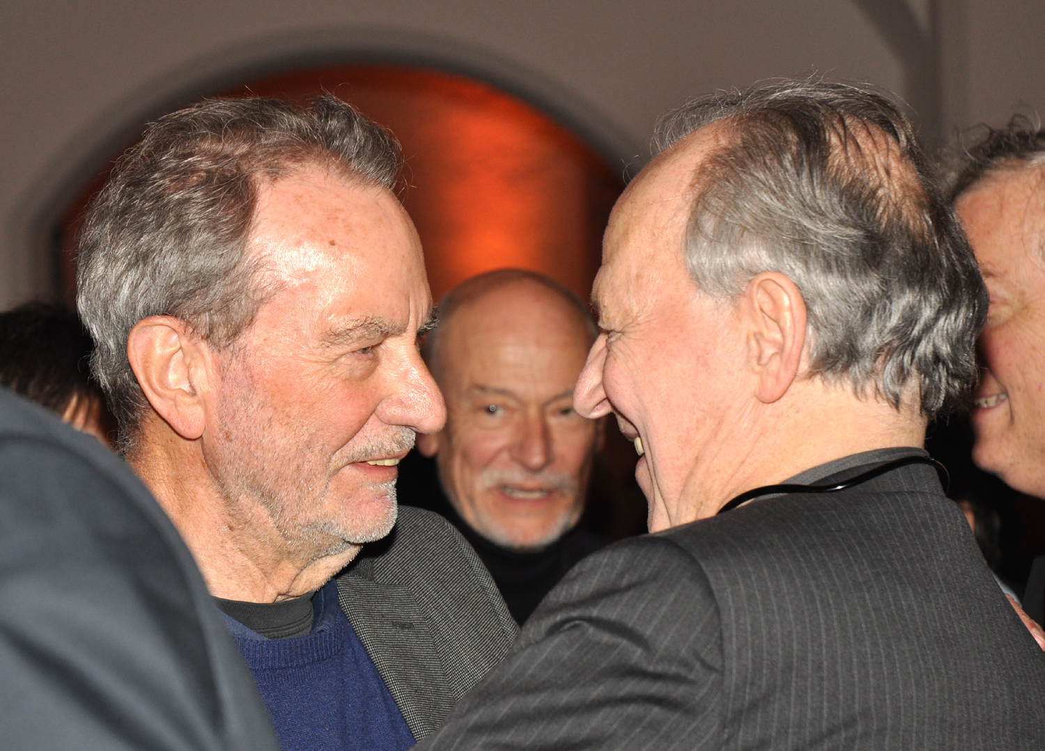 Edgar Reitz (left) with Werner Herzog in Munich, 2015